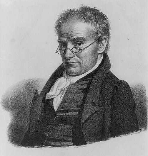 Amercian composer Anthony Philip Heinrich (1781-1861). "The western minstrel."